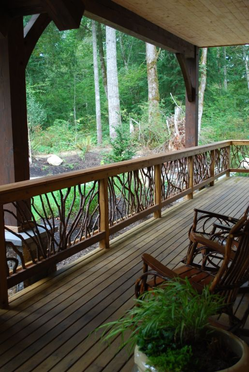 Timber Frame porch with Mountain Laurel Handrail.